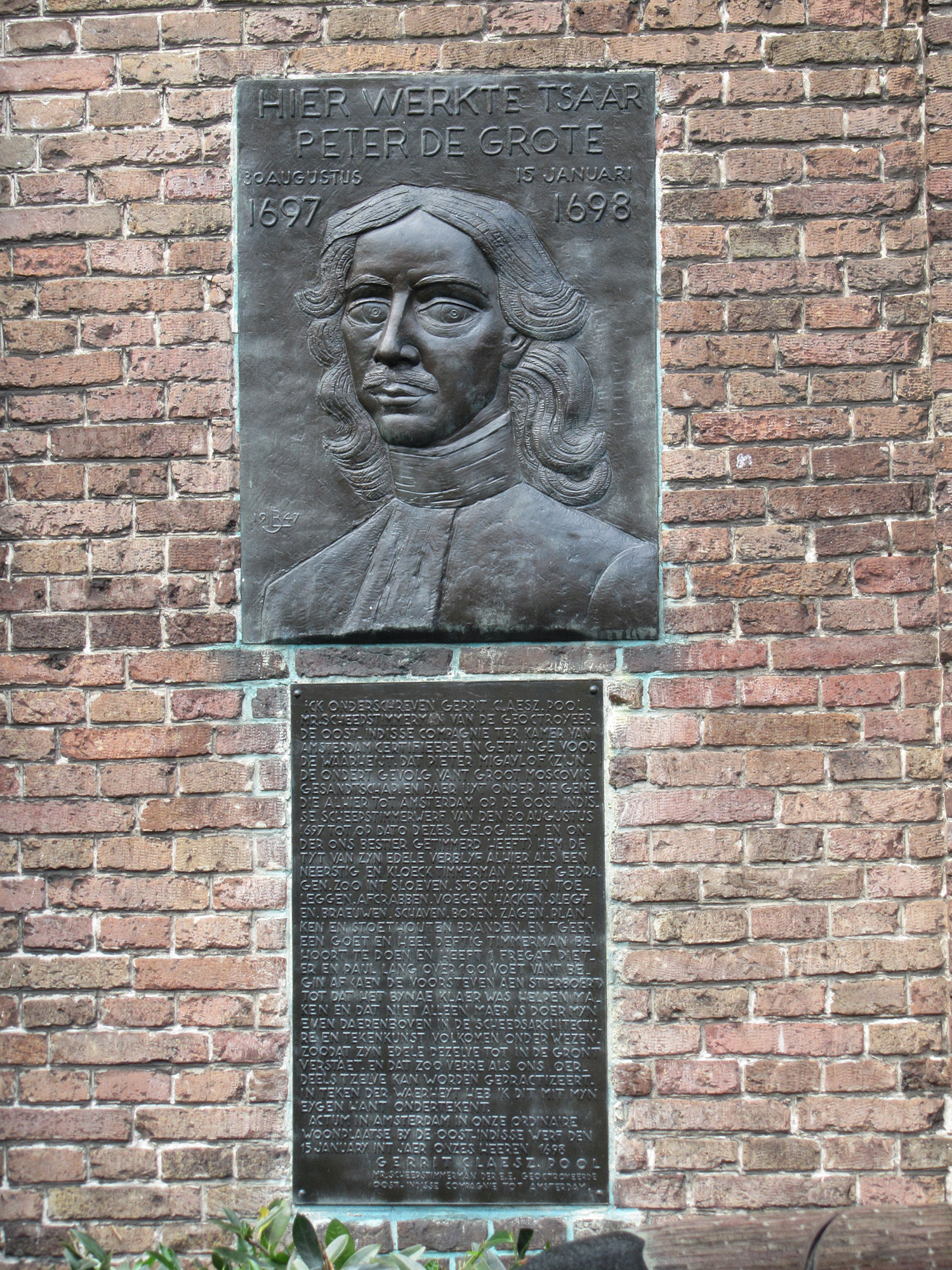 Commemorative plaque for Czar Peter the Great on the Admiraliteitslijnbaan (Rope Walk of the Admirality of Amsterdam). Peter the Great may have stayed here during his time at the Amsterdam shipyards in 1697